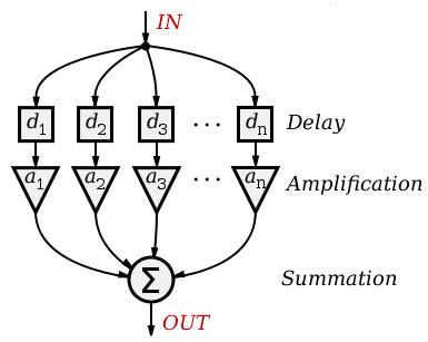 agaga